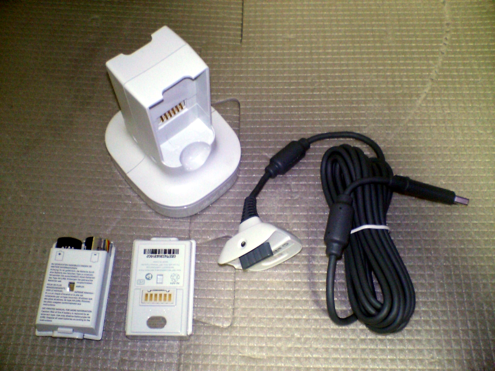 Batteries and chargers for Xbox 360 Wireless Controller